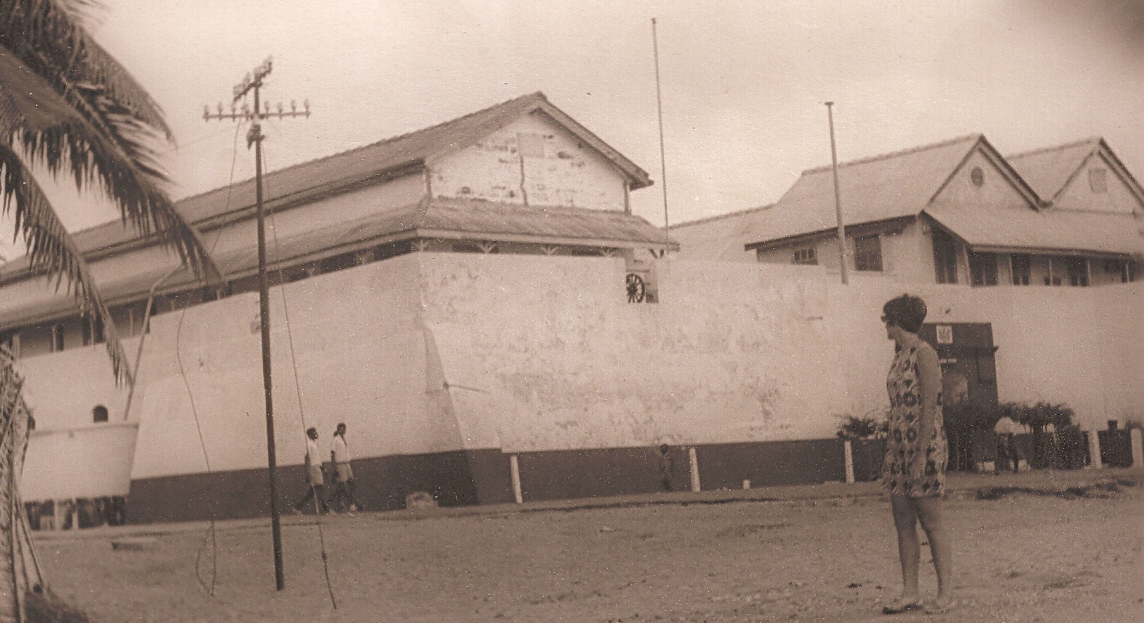 Fort Prinzestein, a Danish fort in Ghana used during slave trade era. The fort was used as a police department office, court and jail by the Ghanaian government in 1970, the time of the photograph.